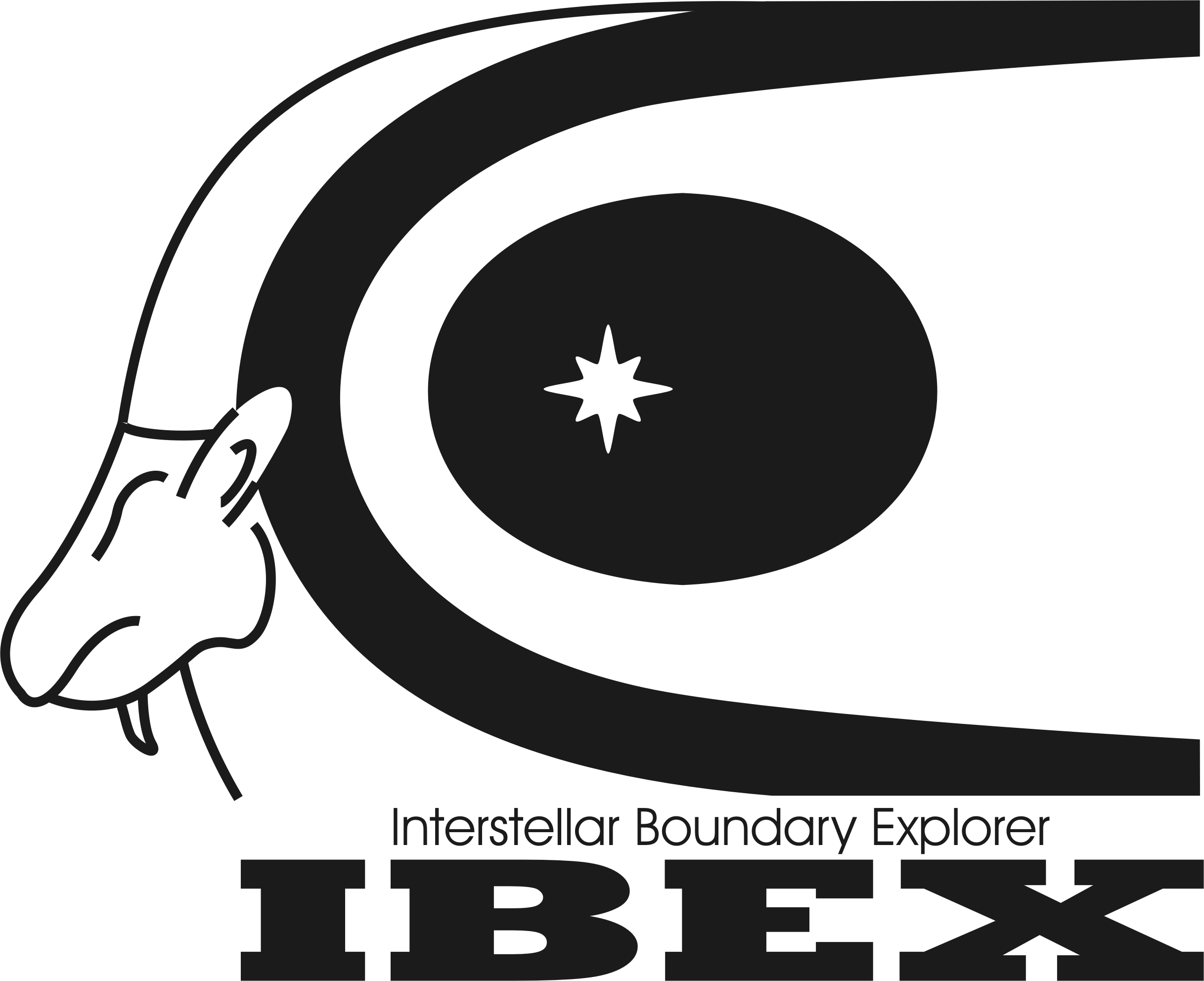 Logo for NASA's Interstellar Boundary Explorer (IBEX) Explorer-class mission.